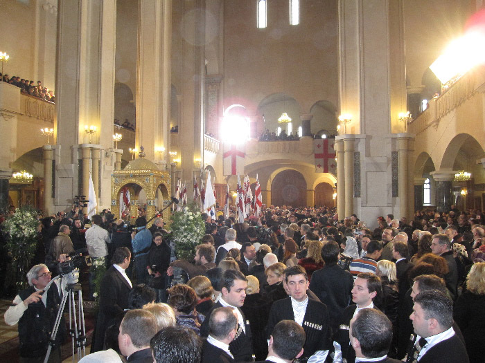 Wedding of Royal House of Georgia.